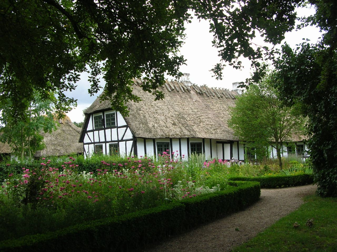 Timber framed farm from the Odense open air museum Den Fynske Landsby